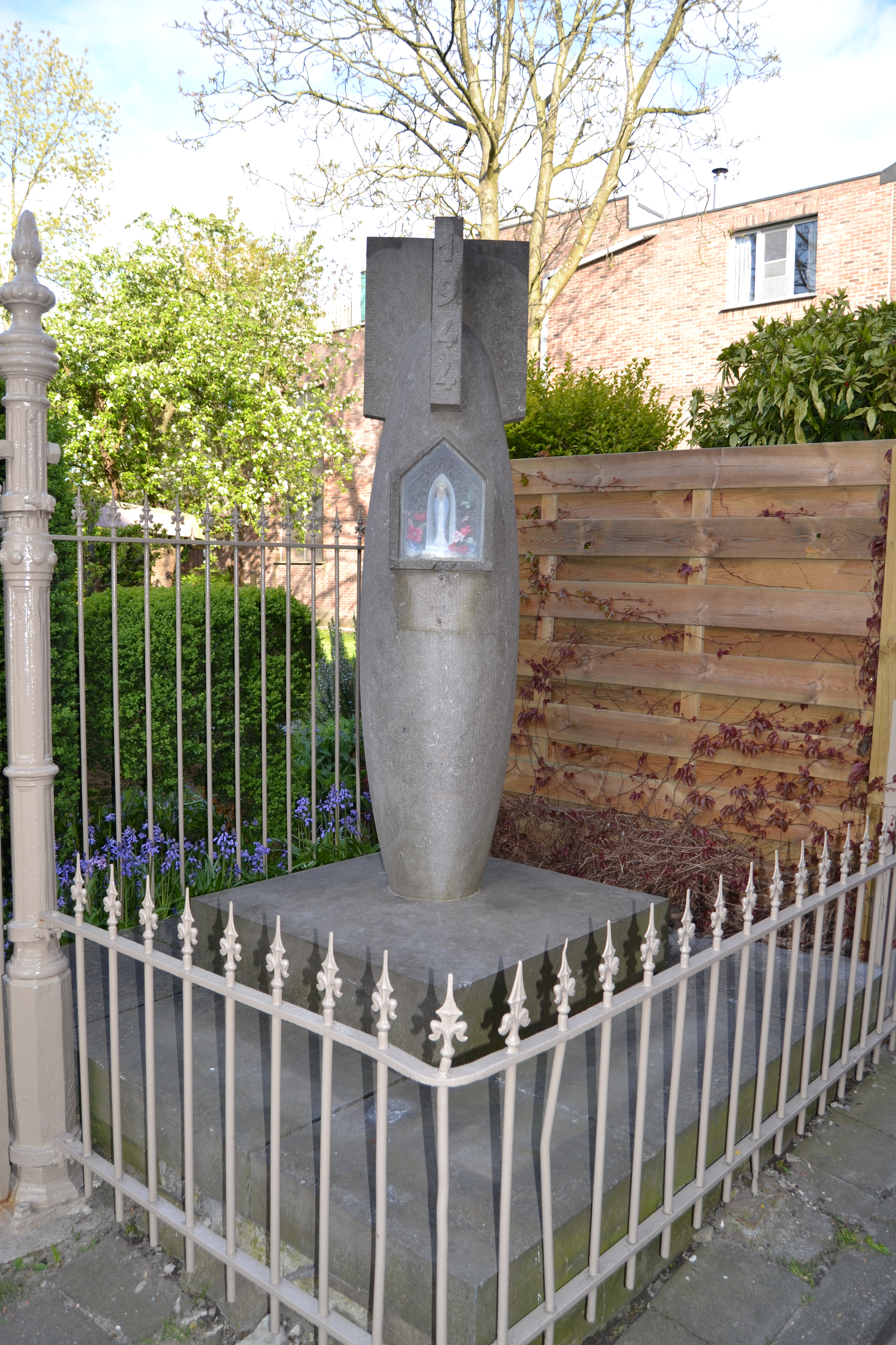 Virgen Mary Statue 1945 bombardment Calcutta Sleidinge